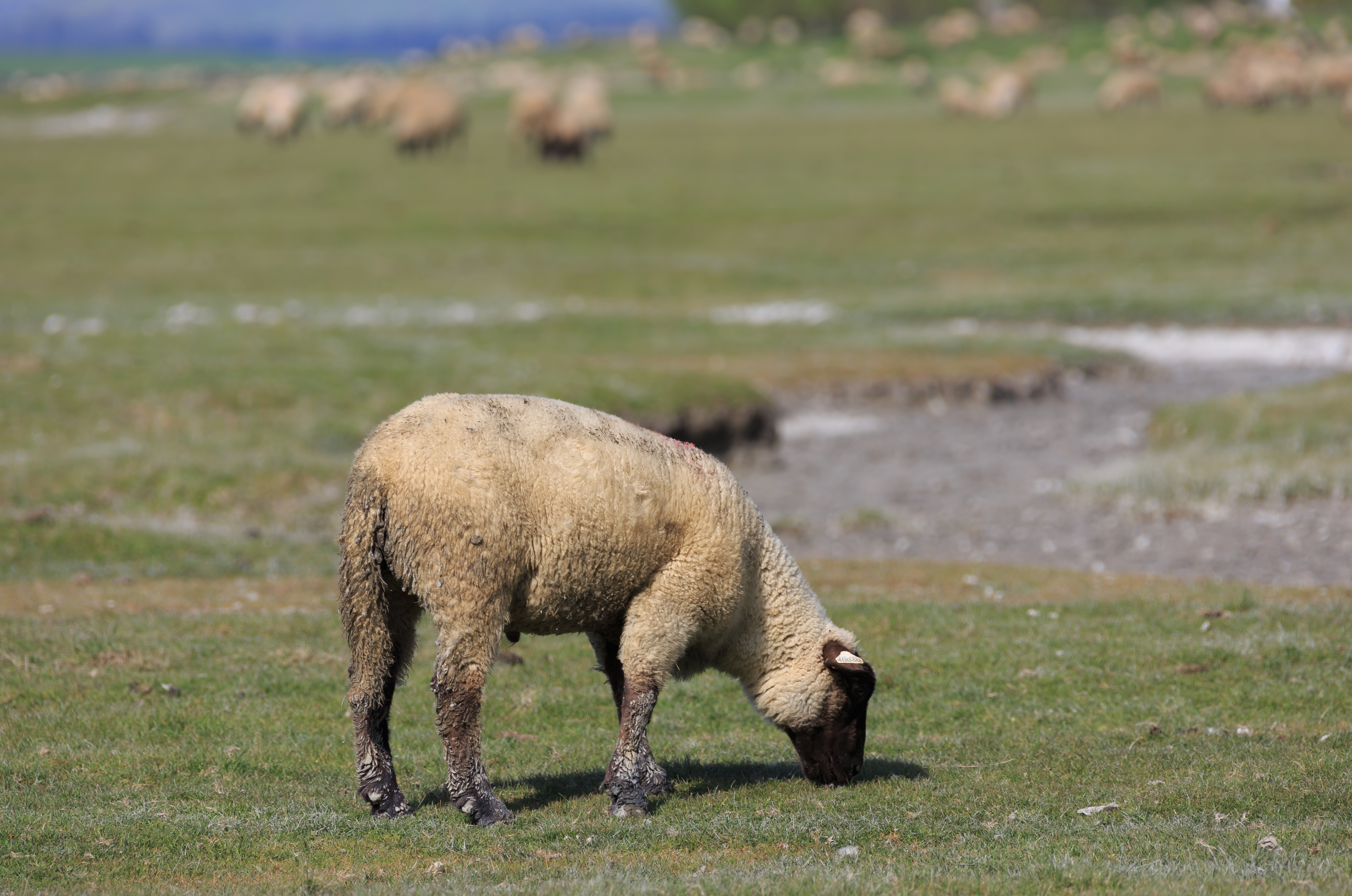 Le Mont-Saint-Michel, France: Salt meadow sheeps grazing near Le Mont-Sait Michel.